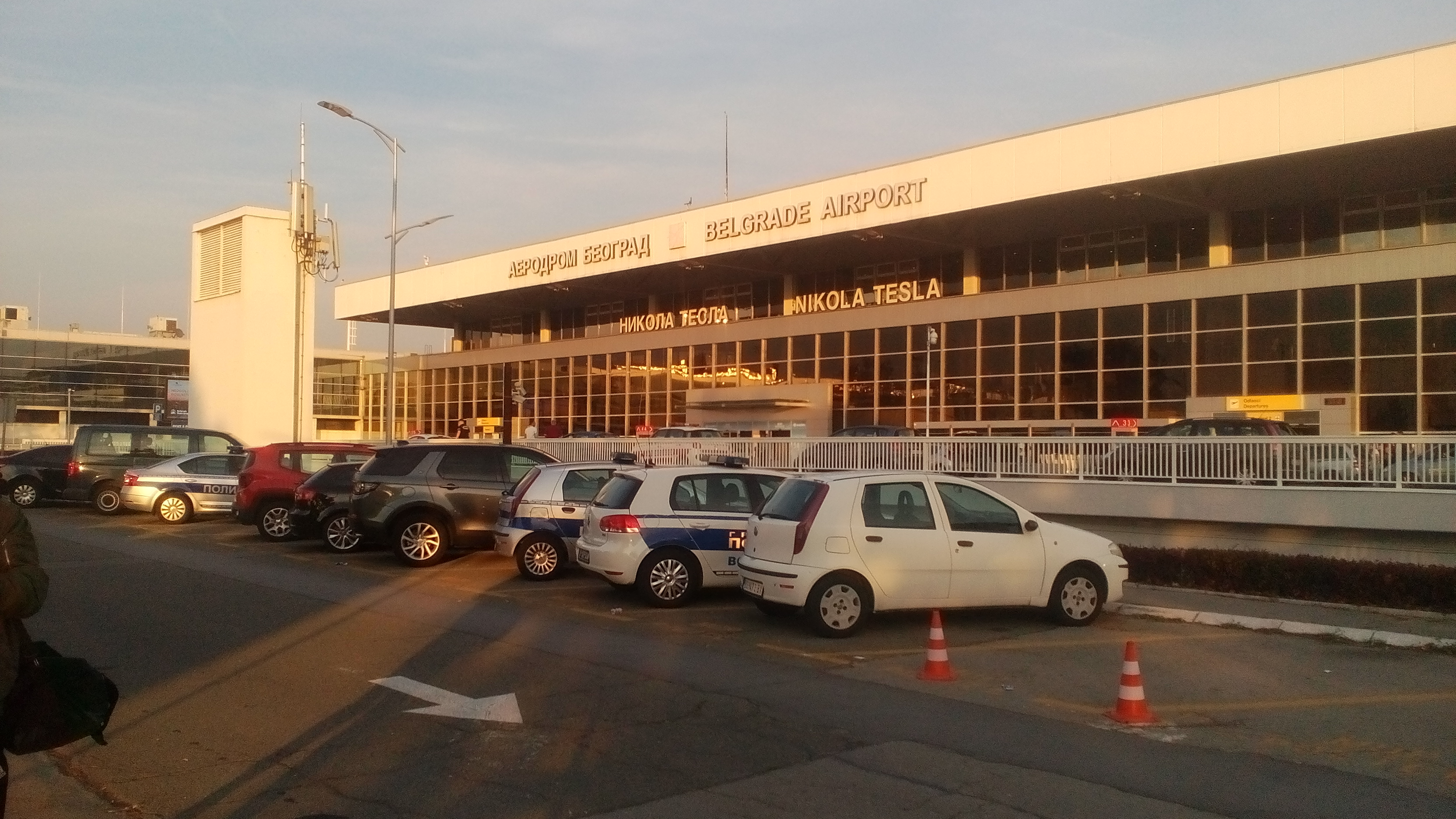 Nikolai Tesla Airport in Belgrade, Serbia.